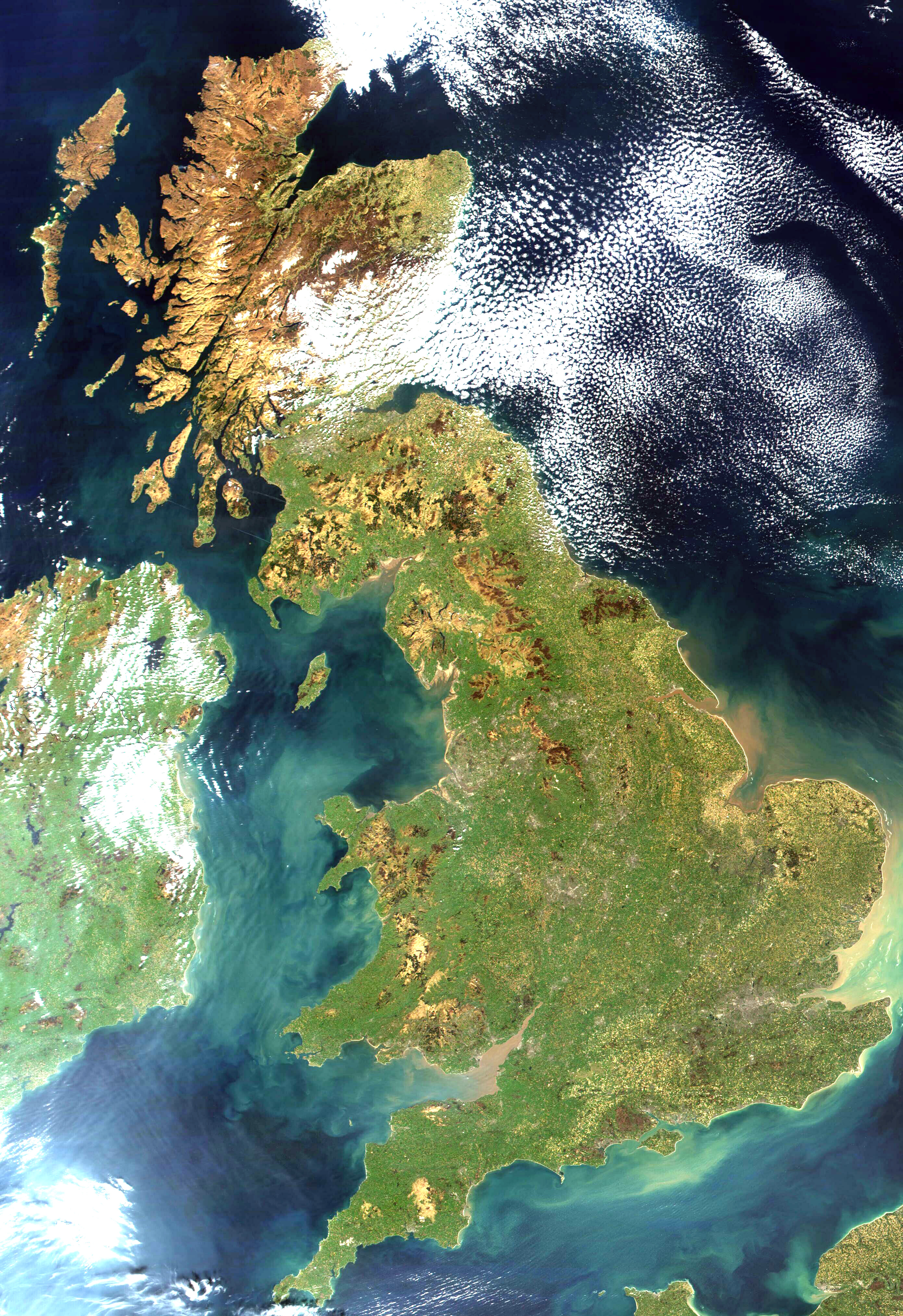 Satellite image of Great Britain and Northern Ireland in April 2002.